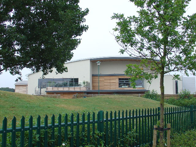 Sports centre in Hampton. This is the Amida sports centre in Fulwell Park, Hampton